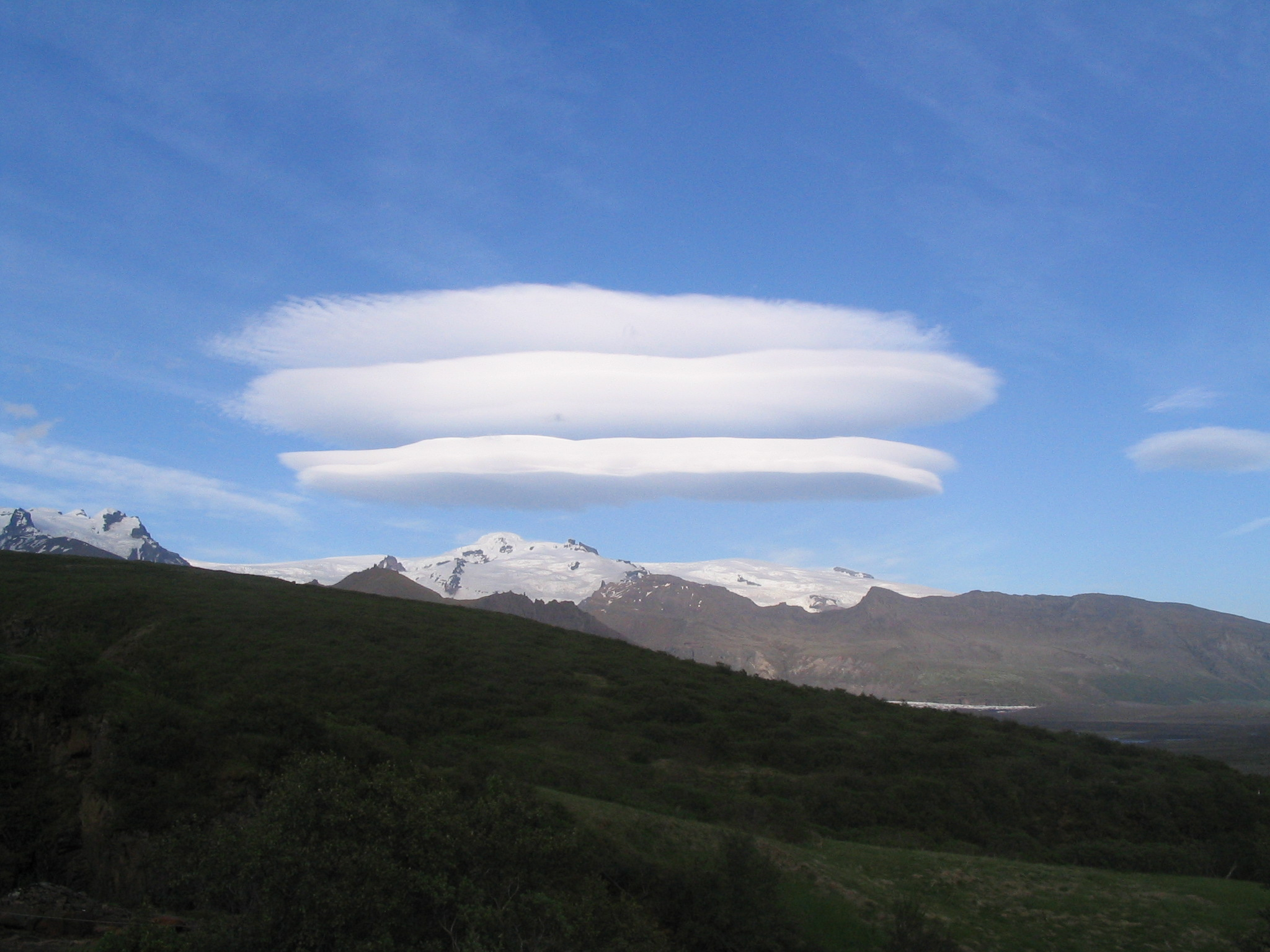 a lenticular cloud above the Skaftafell gletscher in Iceland